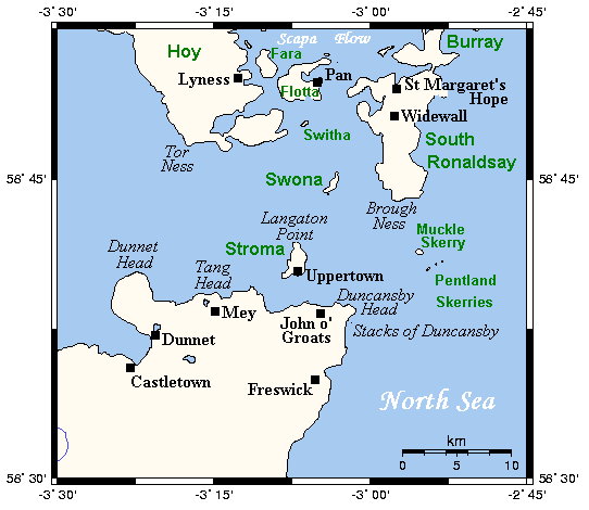 A map of the Pentland Firth, northern Scotland, showing various towns and villages on the British mainland and in Orkney, as well as physical features, including islands in the Firth. This map's source is here, with the uploader's modifications, and the GMT homepage says that the tools are released under the GNU General Public License.